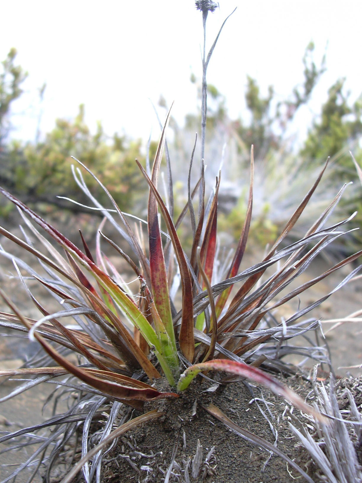 Luzula hawaiiensis (habit). Location: Hawaii, Puu Kole